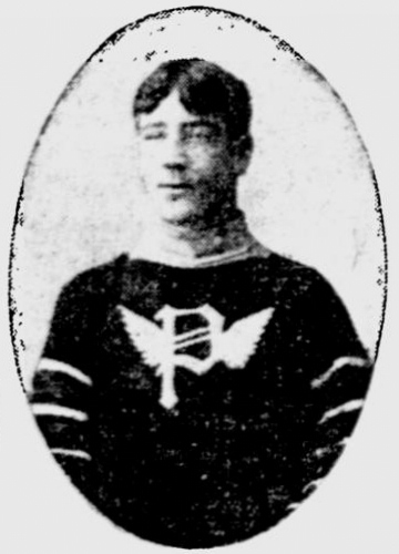 Ice hockey player Tommy Smith of the Pittsburgh Lyceum club of the Western Pennsylvania Hockey League. Pittsburgh Lyceum played in the WPHL between 1907–1909.